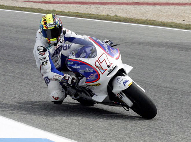 Karel Abraham 2011 Estoril